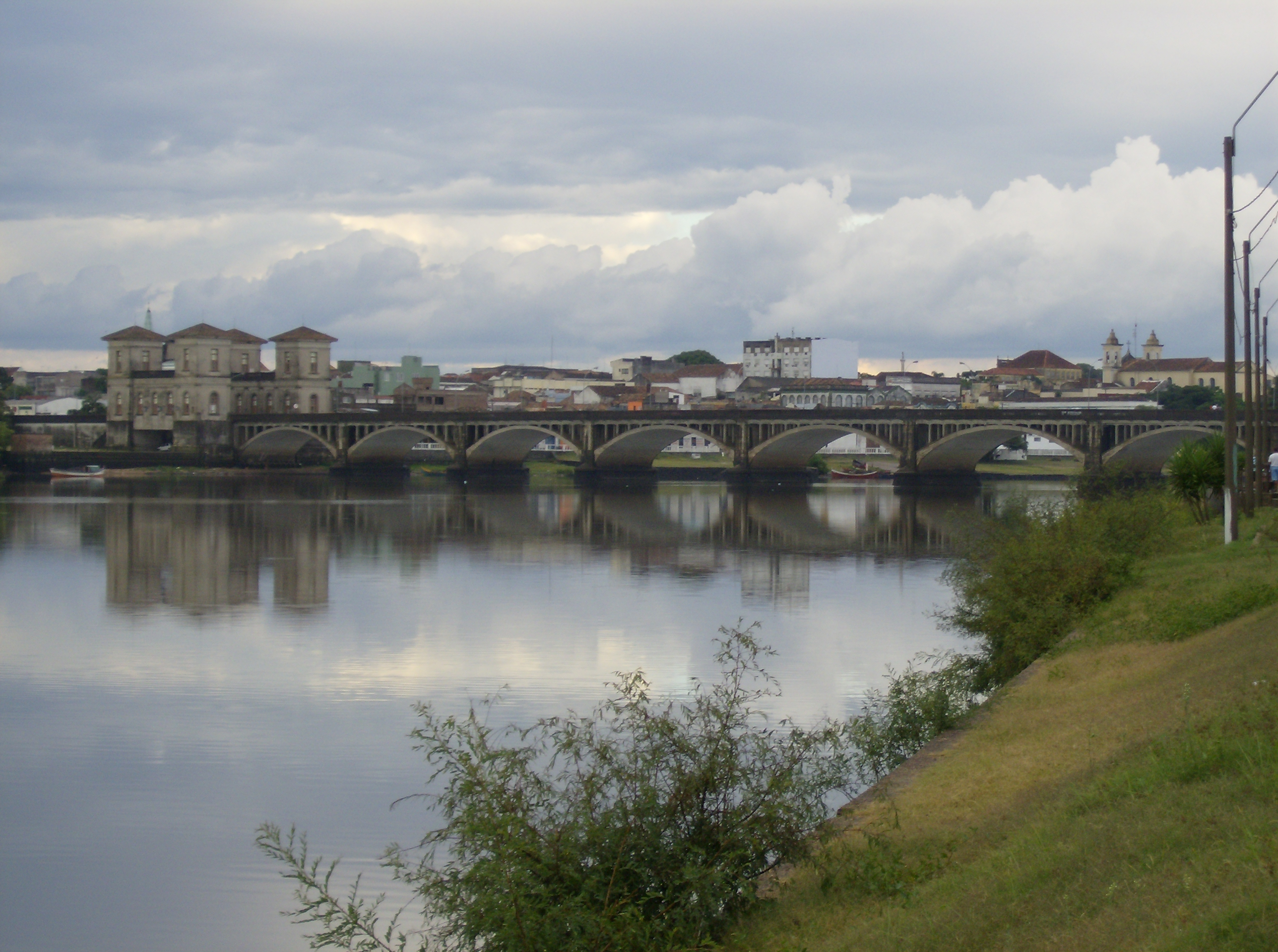 Río Branco, city of Uruguay (on the border between Brazil and Uruguay, separated by the Jaguarão river)